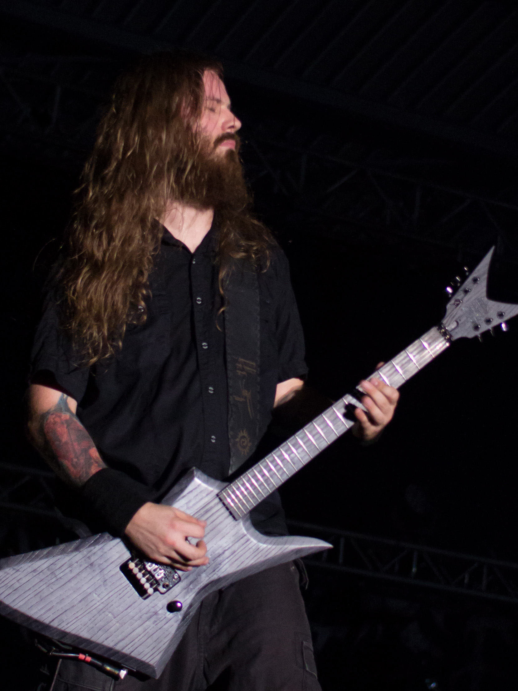 Wacław Kiełtyka on 12 September 2014